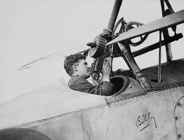 William Avery (Billy) Bishop, WW1 Canadian Fighter ace, demonstrates the "upward firing" technique used by himself and others when attacking enemy aircraft from below. The early version of the "Foster mounting" - as used on Nieuport Fighters in British service, is clearly seen.